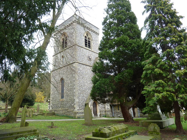 St. Peter's church, Caversham, near to Caversham, Reading, Great Britain.